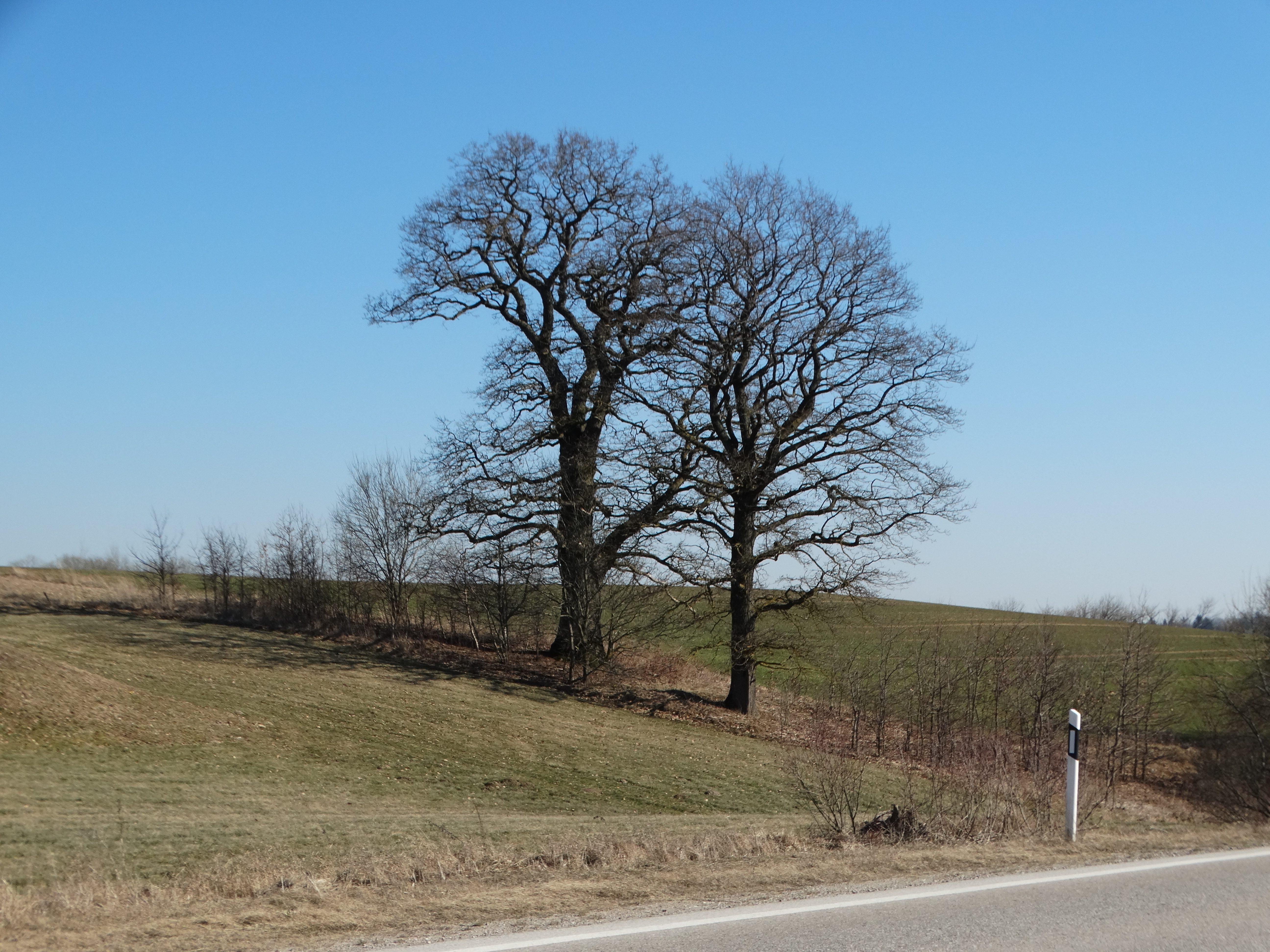 Oak, Pakarčemis, Kelmė district, Lithuania